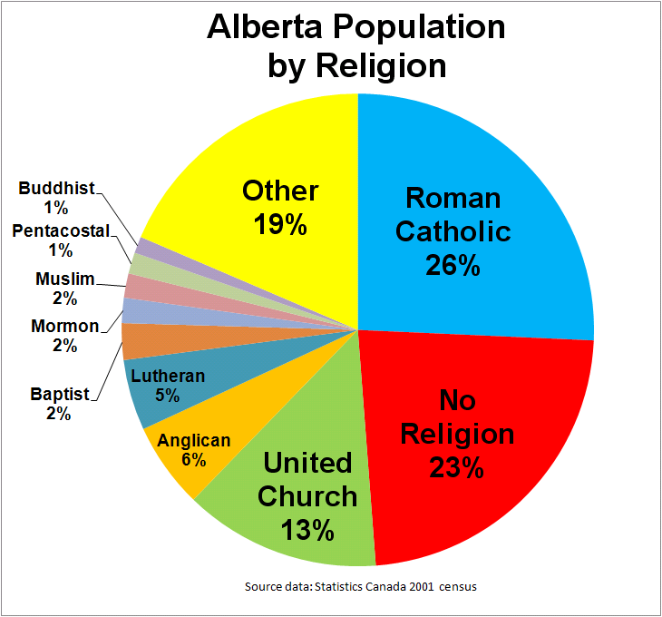 Pie chart of Alberta religions created using MS Excel from Statistics Canada 2001 census data